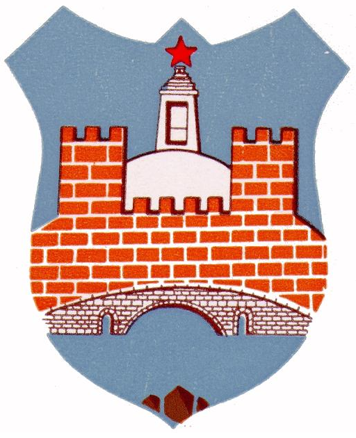 Coat of arms of the City of Titograd (now called Podgorica) during the SFRY times.